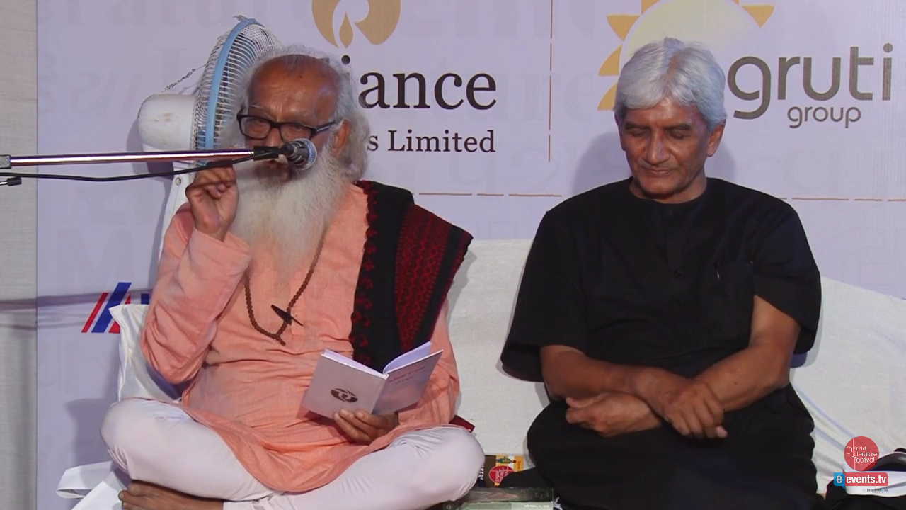 Gujarati poets Rajendra Shukla (left) and Madhav Ramanuj (right) at Gujarati Literature Festival (GLF) on 18 December 2016.